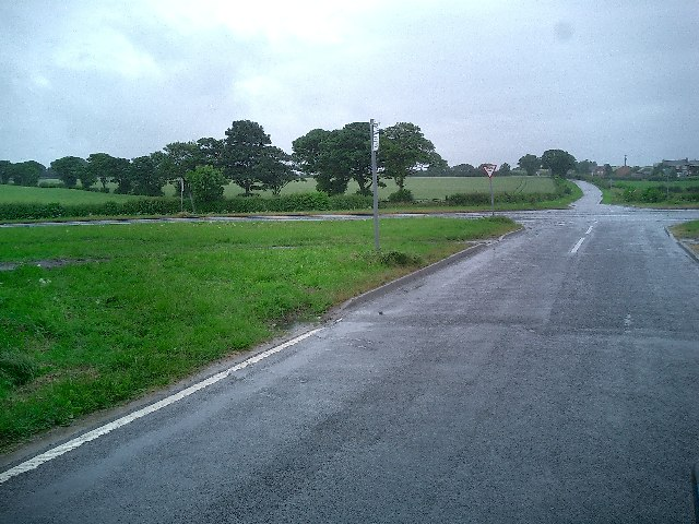 Crossroads, Elwick Road/ Hart Back Lane. Looking north towards Naisberry.